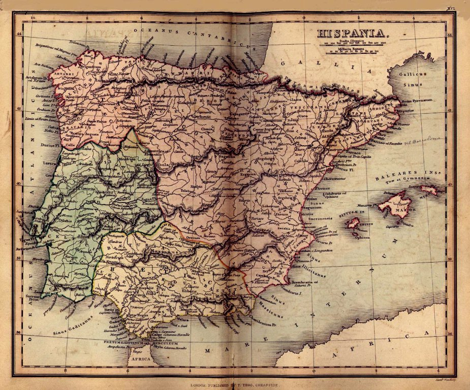 Courtesy of the University of Texas Libraries, The University of Texas at Austin According to this image is from: From A Classical Atlas of Ancient Geography by Alexander G. Findlay. New York: Harper and Brothers 1849.